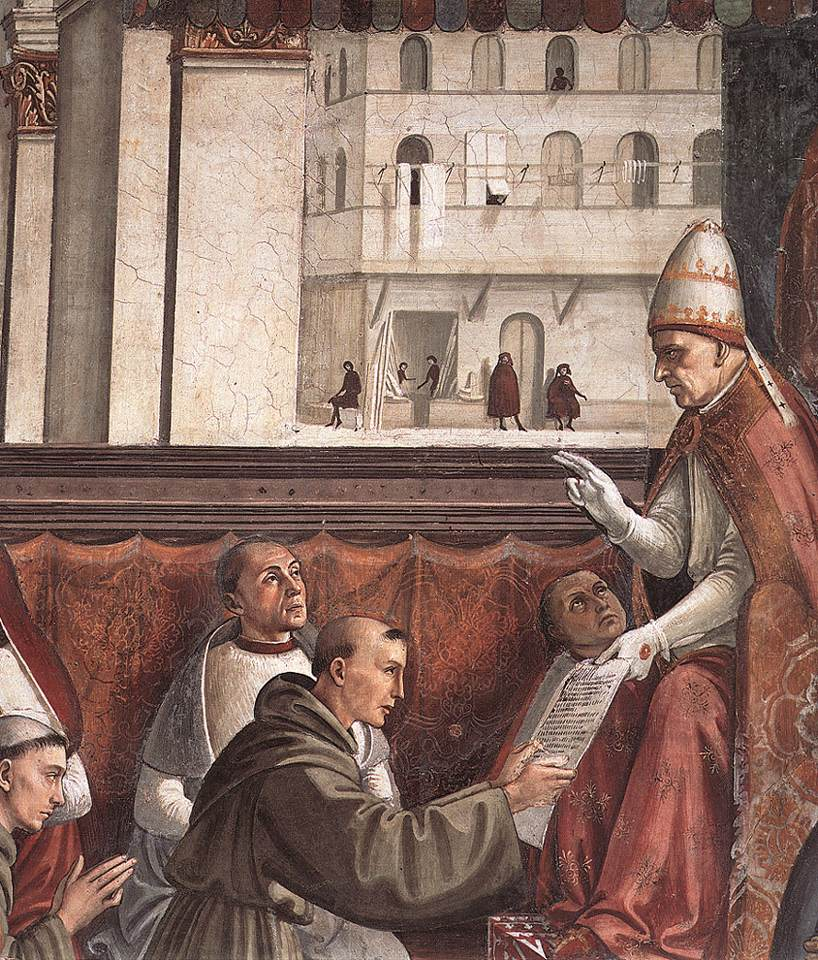 GHIRLANDAIO, Domenico Confirmation of the Rule Fresco Santa Trinità, Florence